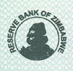 This is the obverse of a paper banknote of the Zimbabwe Dollar.